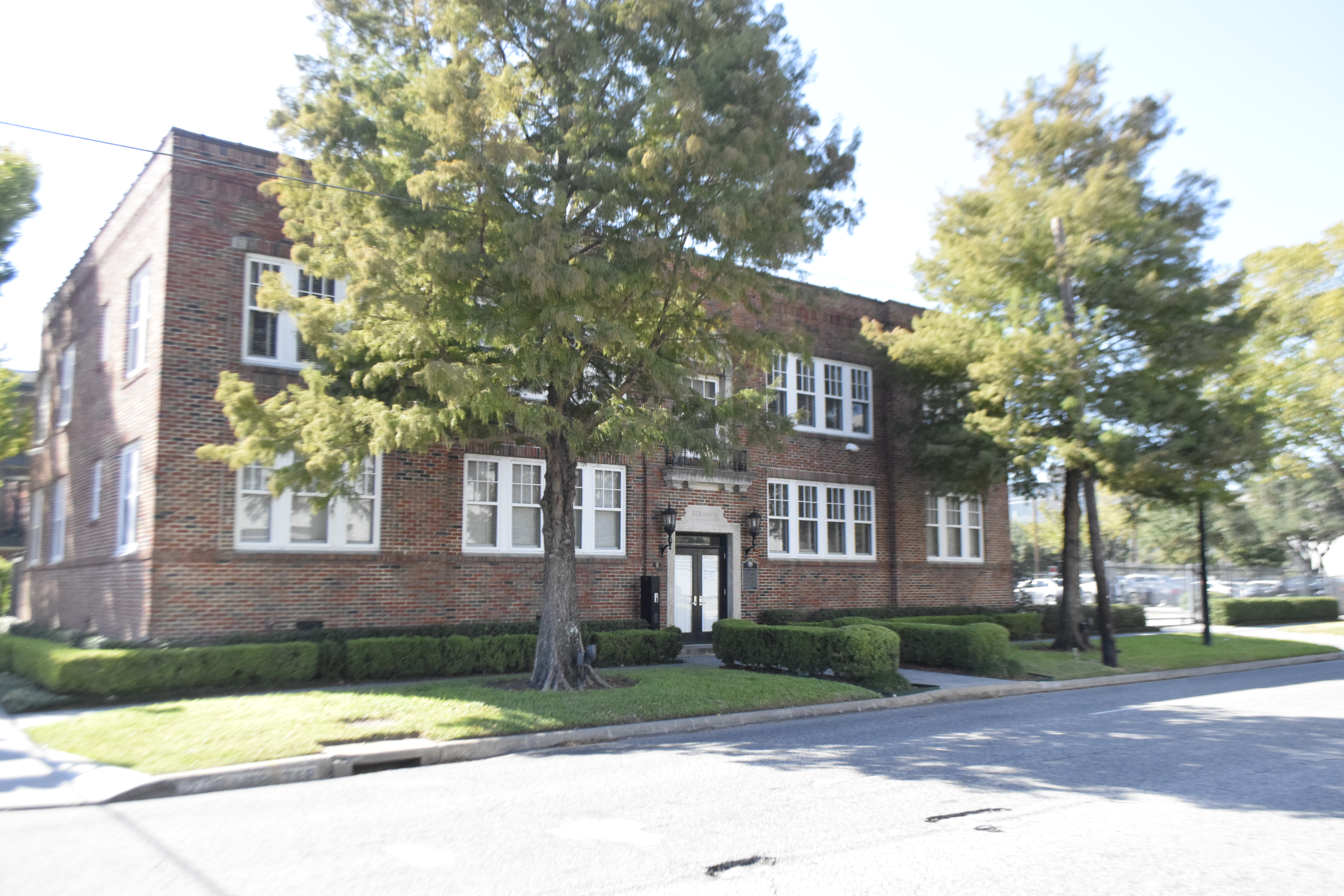 Benjamin Apartments